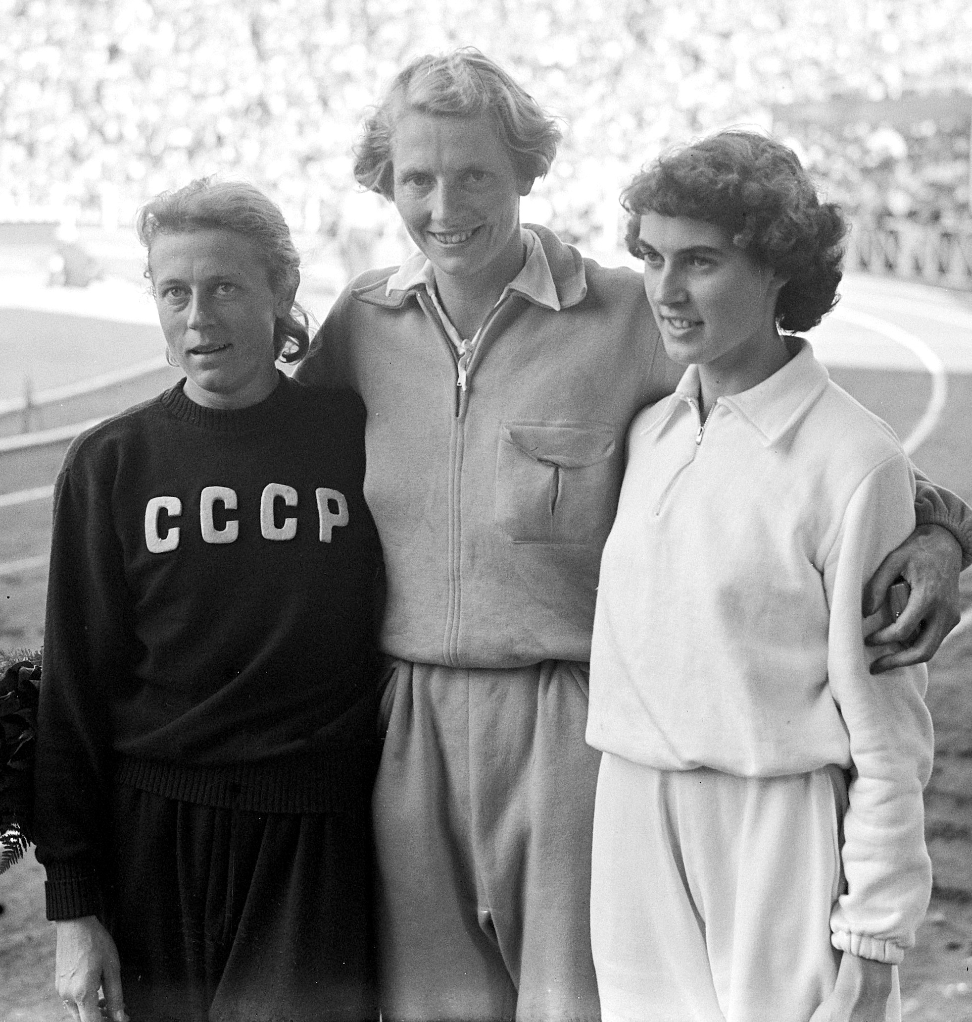 Left-right: Yevgeniya Sechenova, Fanny Blankers-Koen, Dorothy Manley. Podium of 200 m at the European Championships in Brussels